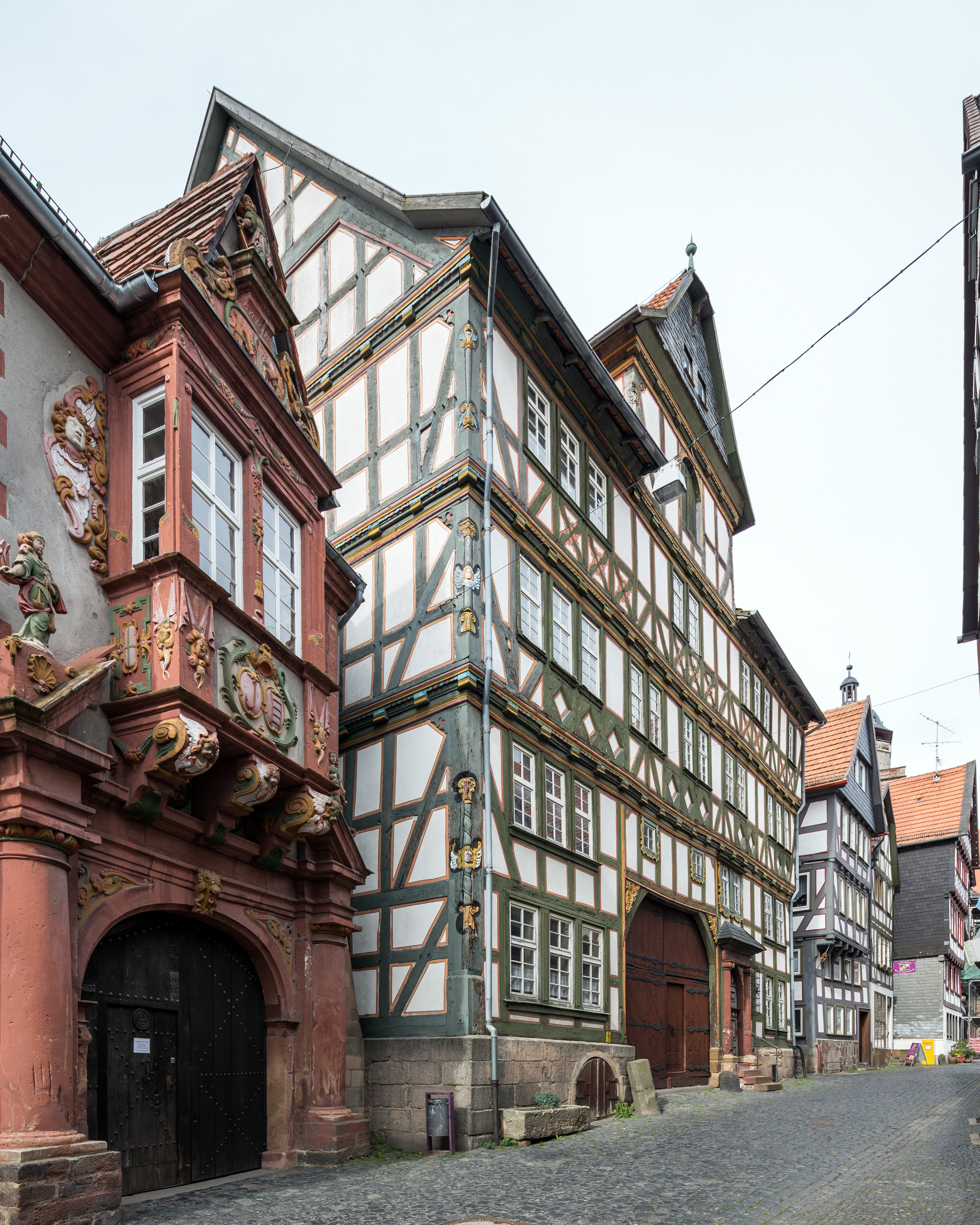 Alsfeld: Rittergasse (Knight's Lane) 3/4, so-called Neurathhaus (Neurath House) as seen from the southwest